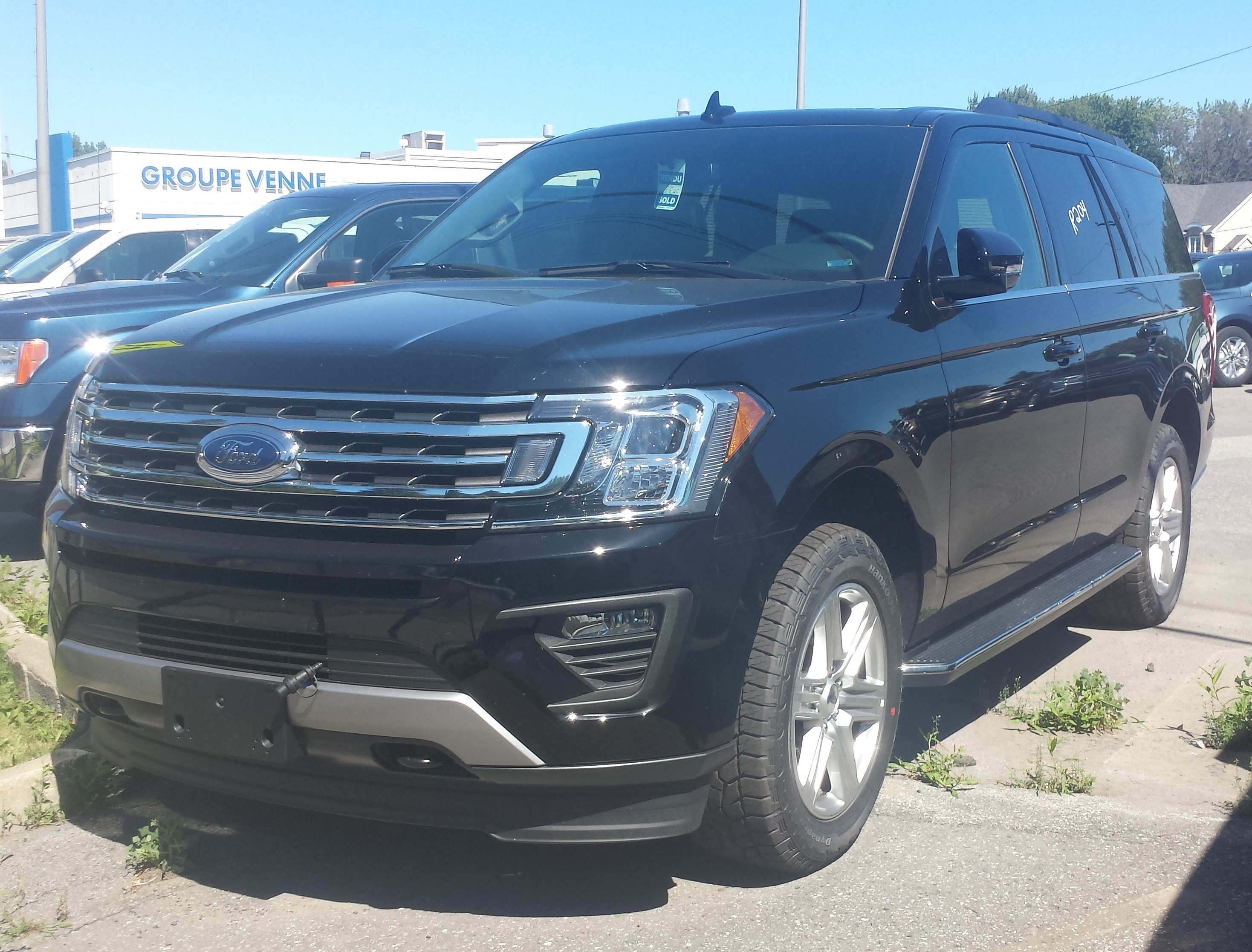 2018 Ford Expedition photographed in Repentigny, Québec, Canada.